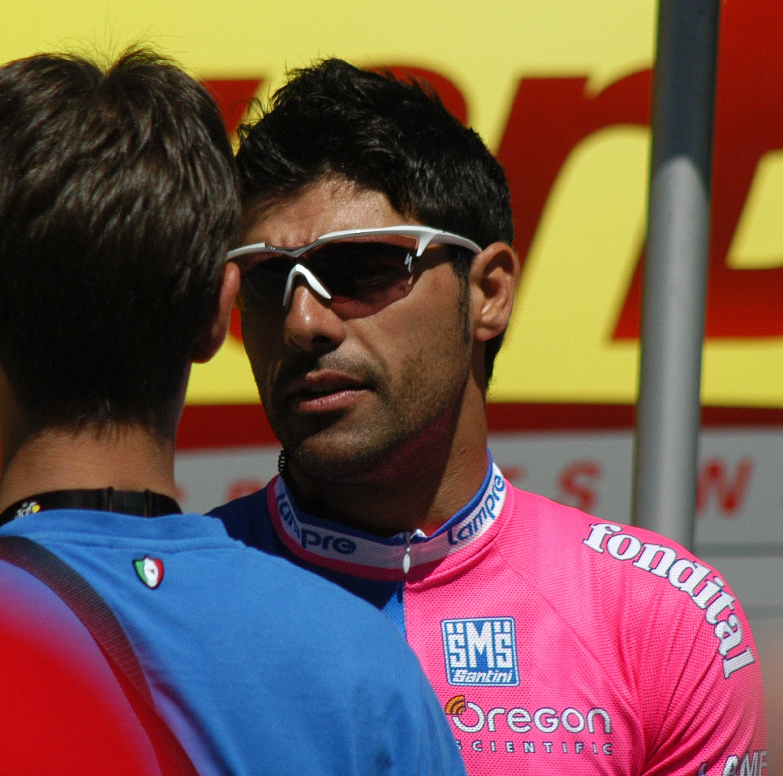 Danilo Napolitano at the start of stage 8 in Le Grand Bornand, Tour de France 2007.